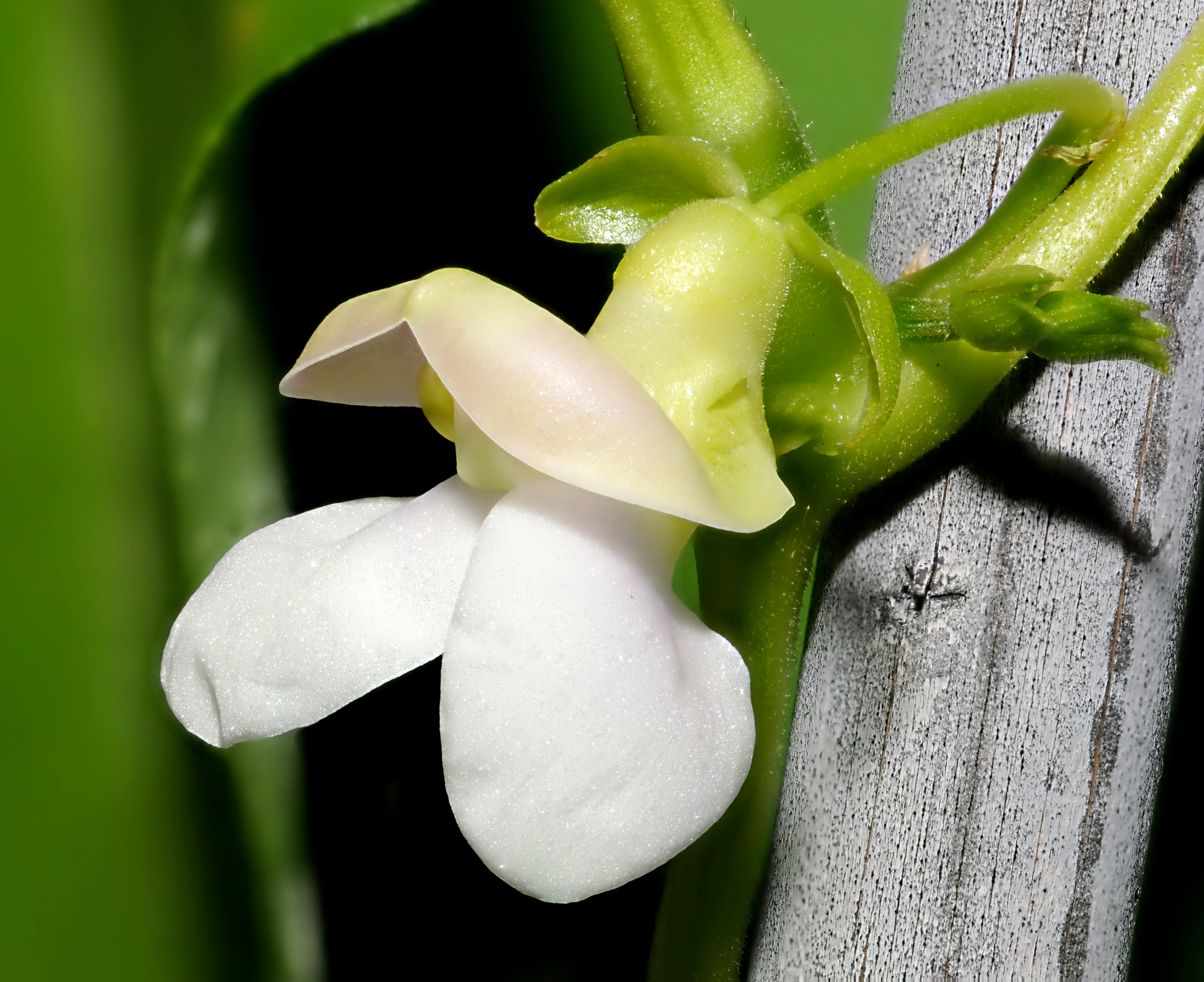 This photograph was taken with a Nikon D300 This image was created with CombineZP. Fleur de haricot (Phaseolus vulgaris) (focus stacking). Image composée de 26 photos assemblées avec CombineZP.